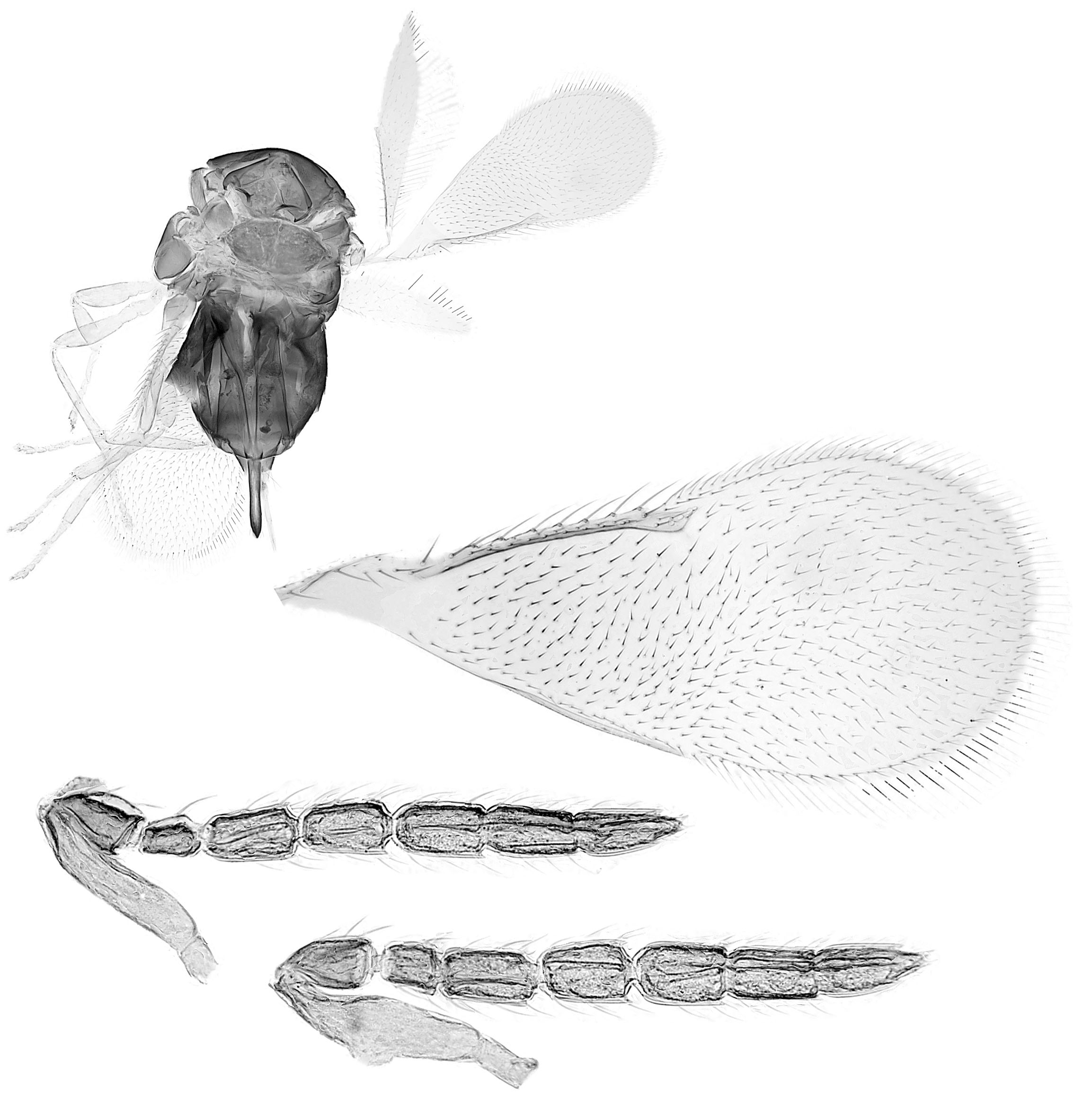 Slide preparation of the holotype of Coccophagus iris Girault